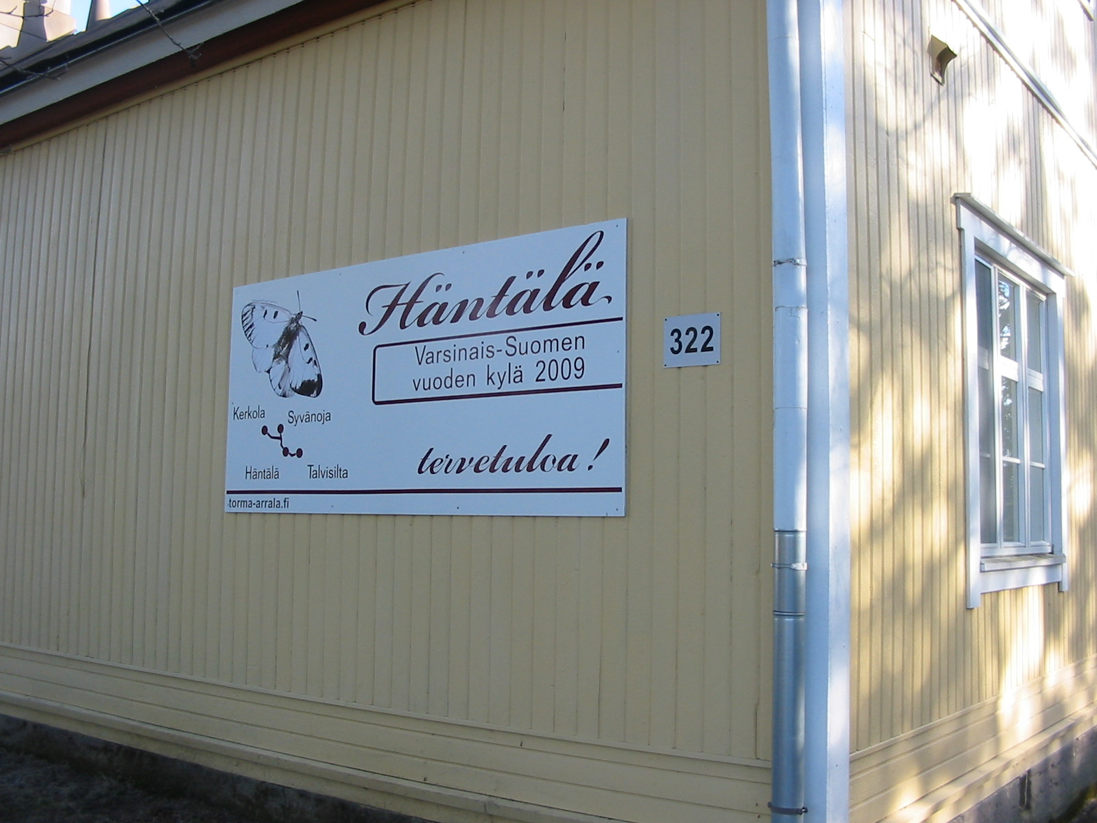 Häntälä in Somero was elected the village of the year in Finland Proper in the year 2009.